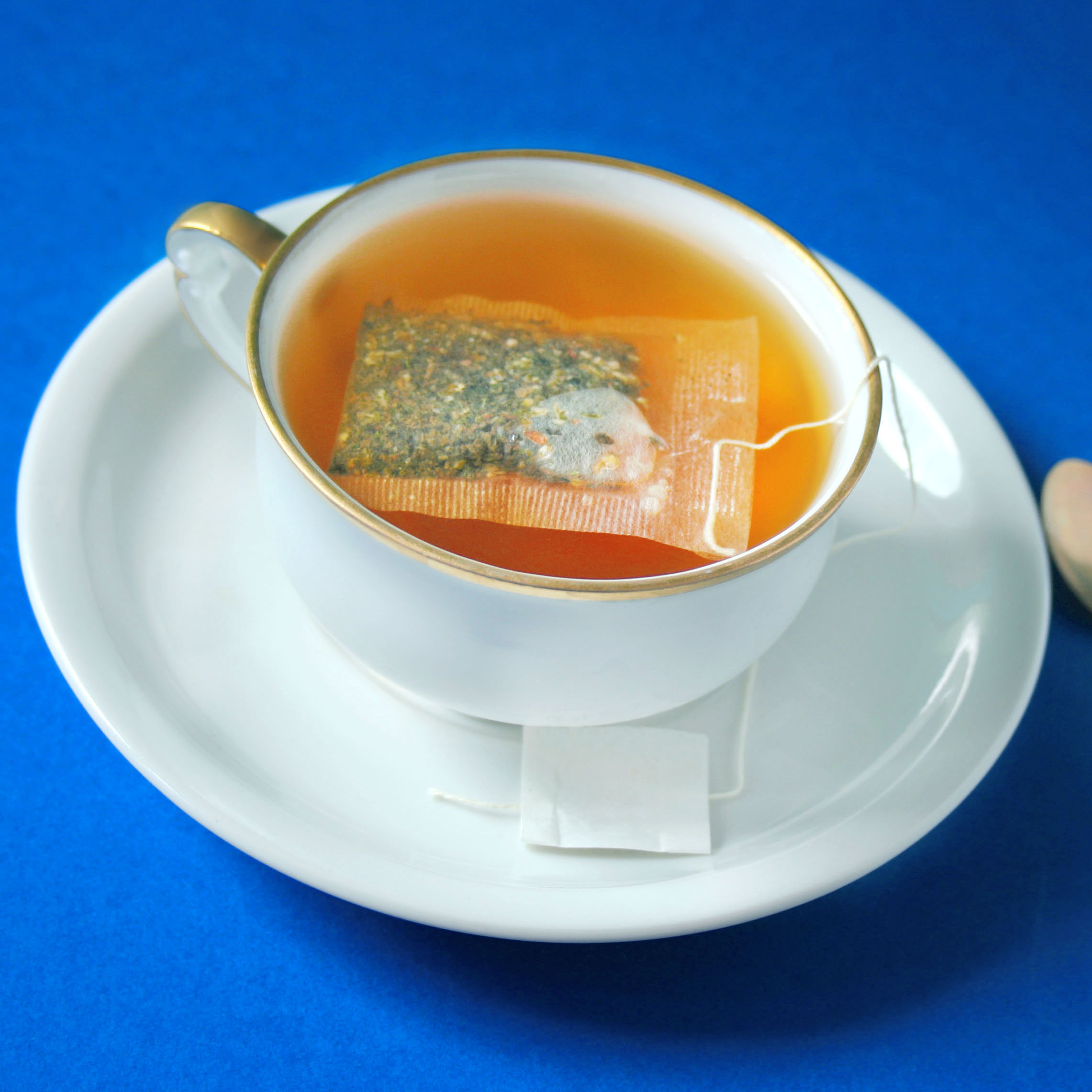 Herb filter-tea